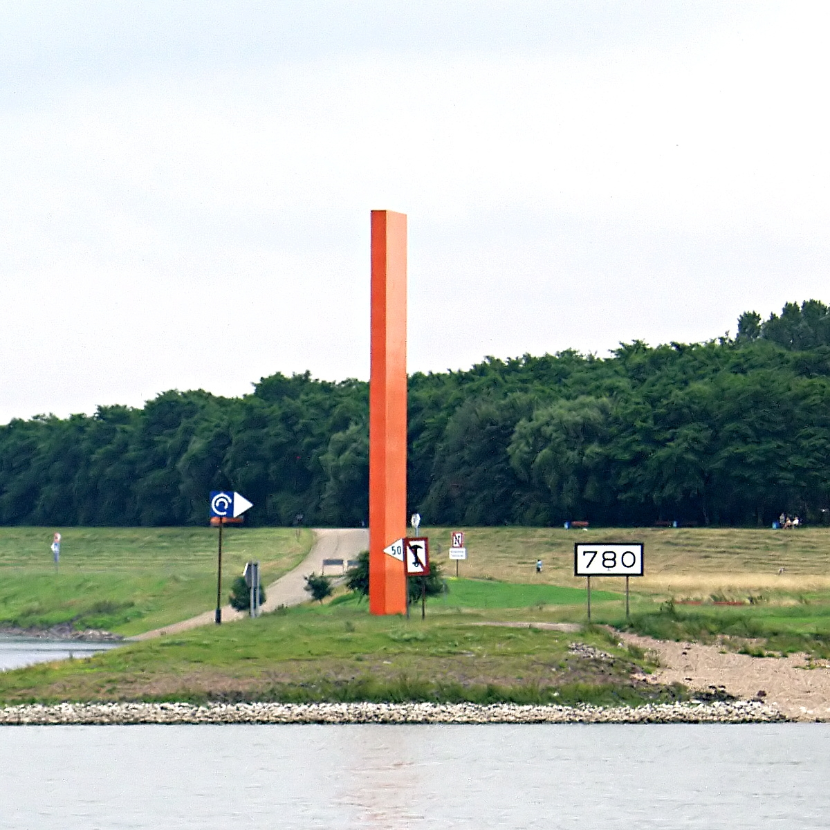 Sculpture "Rheinorange" at the estuary of the river Ruhr into the river Rhine